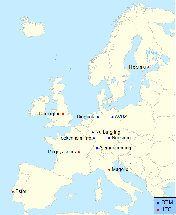 Blank map of Europe with Atelier graphique colors, Kosovo as its own country Equirectangular projection, N/S stretching 140 %. Geographic limits of the map: * N: 46.3° N * S: 41.7° N * W: 18.7° E * E: 23.2° E